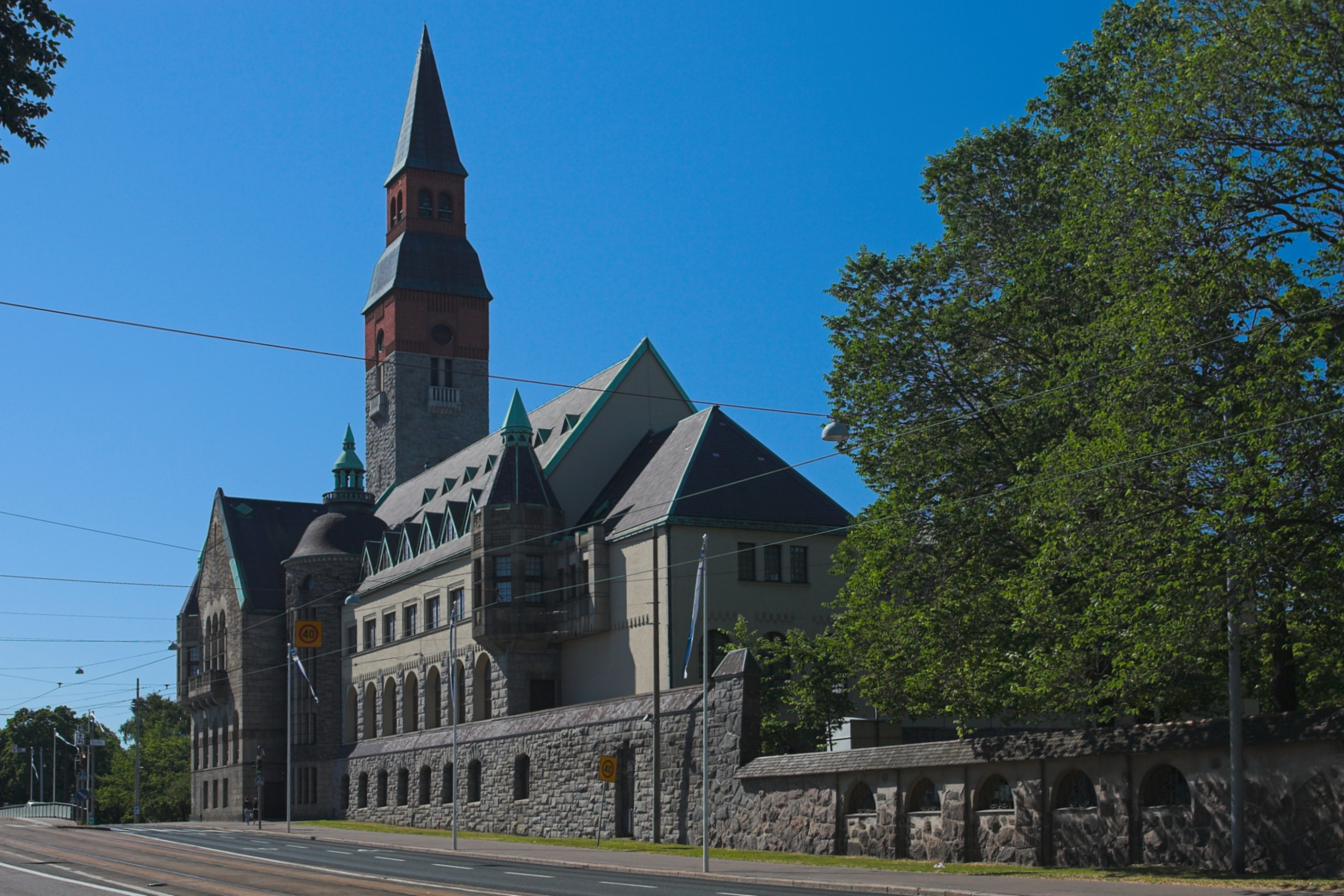 Finnish National Museum. Photo by Thermos.